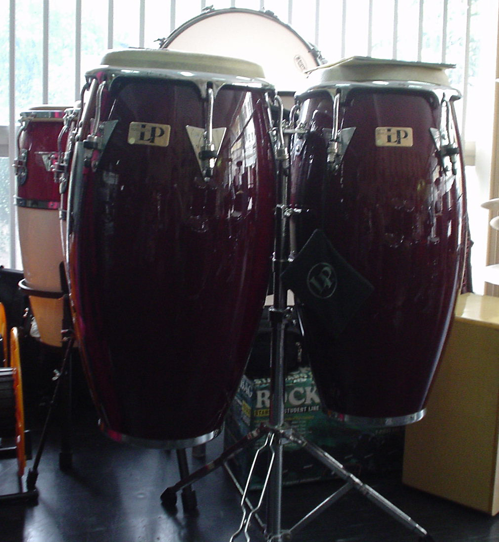 Pair of Congas